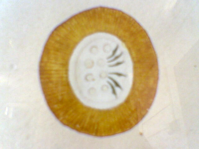 Picture of the egg of Tenia solium